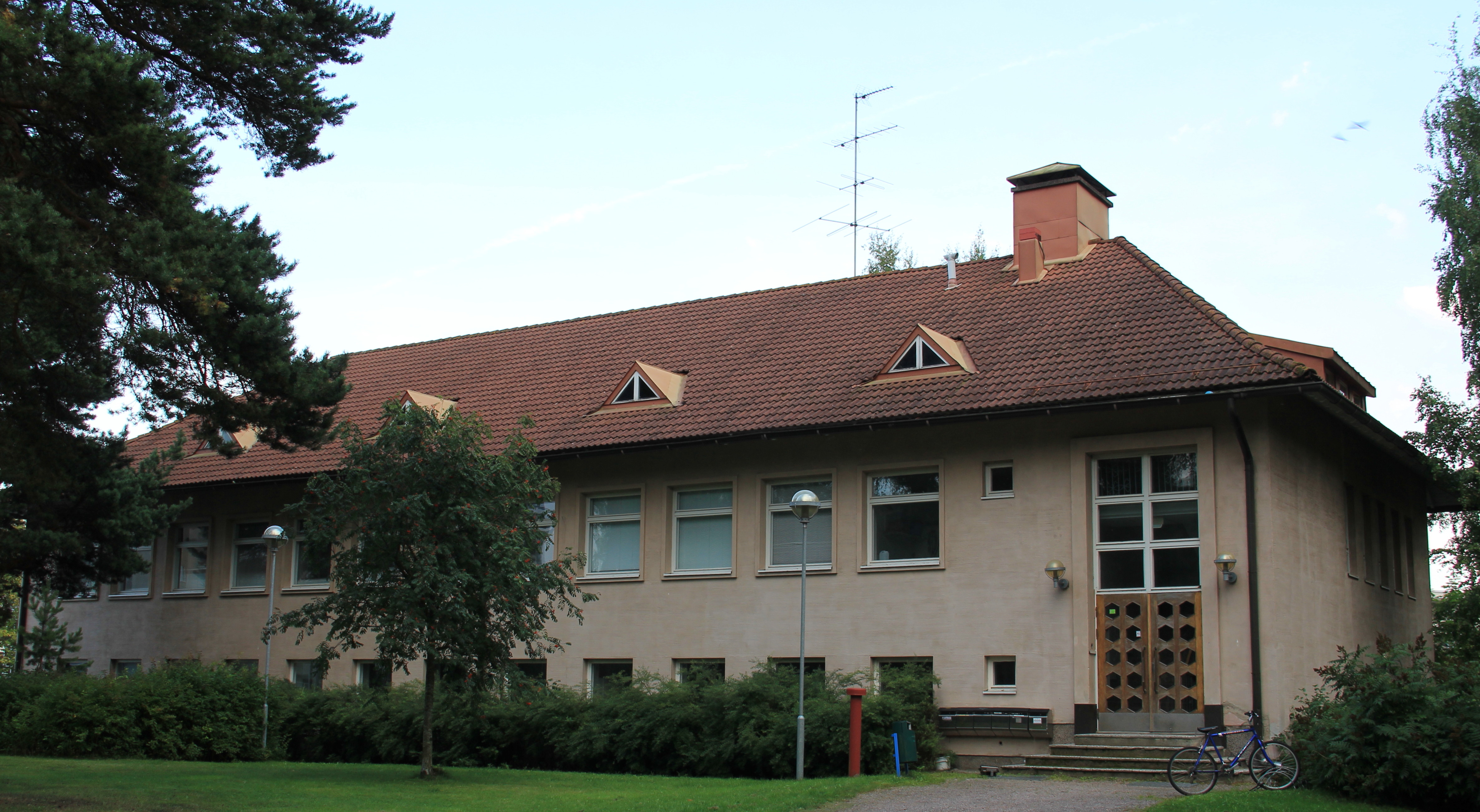 Community house Saseka, Kallahti, Helsinki, Finland. - It's designed by architect Pirkko Wesamaa and completed in 1952 as canteen building of Saseka company.